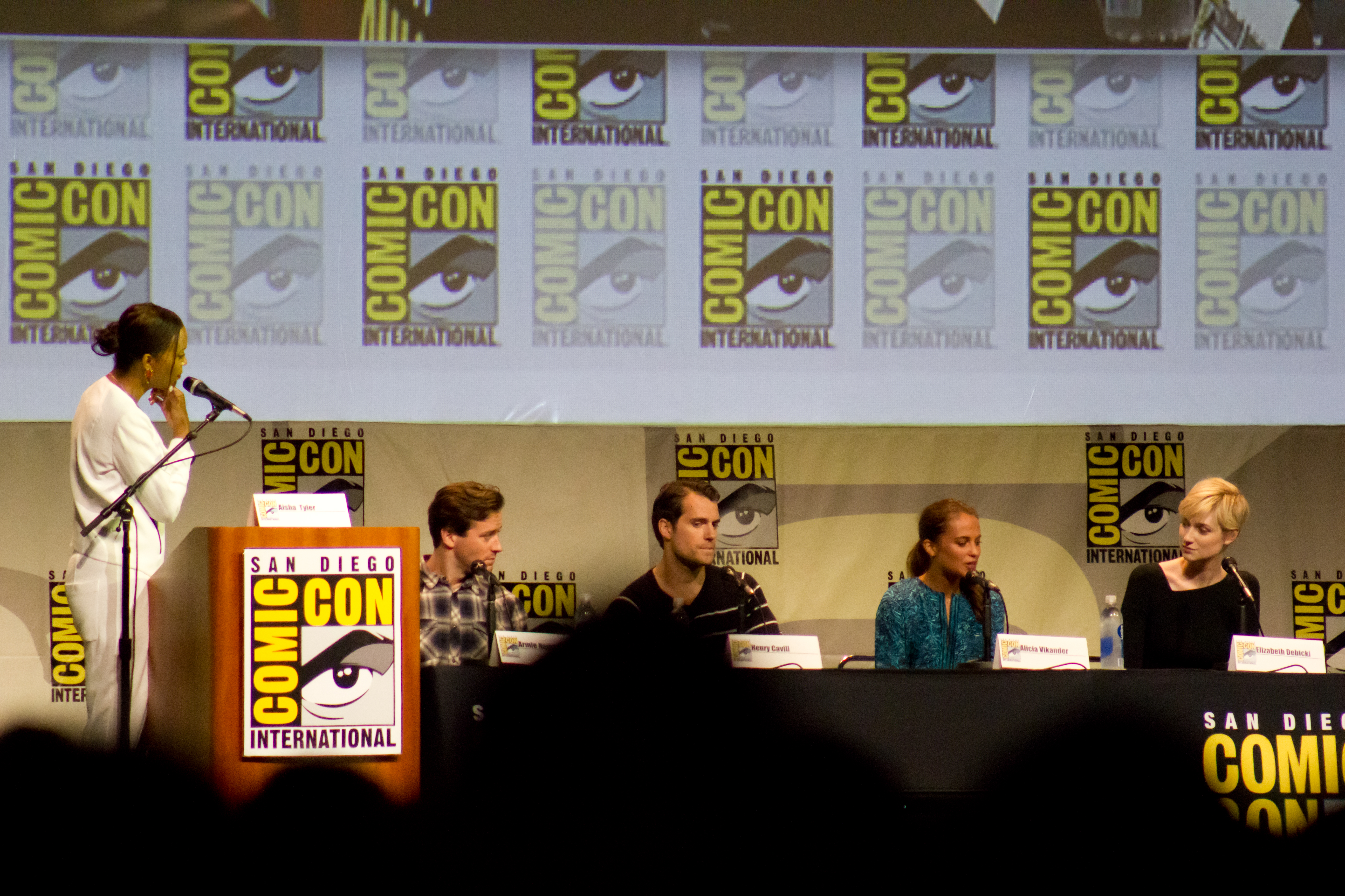 Man from U.N.C.L.E.Taken at the 2015 Comic-Con International in San Diego.